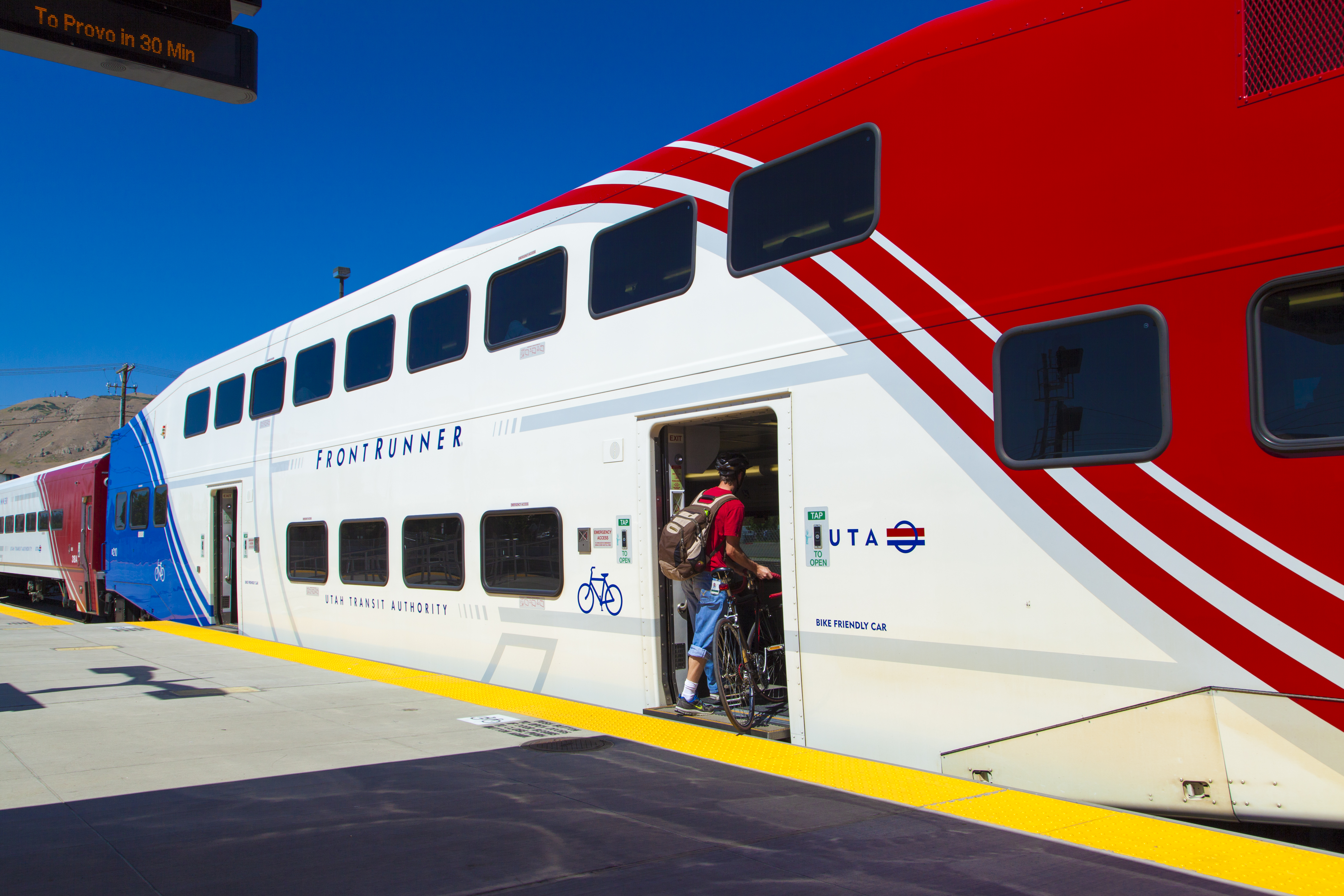 A Utah Transit Authority FrontRunner bike-friendly Bombardier train car at the North Temple station in Salt Lake City, Utah, USA.